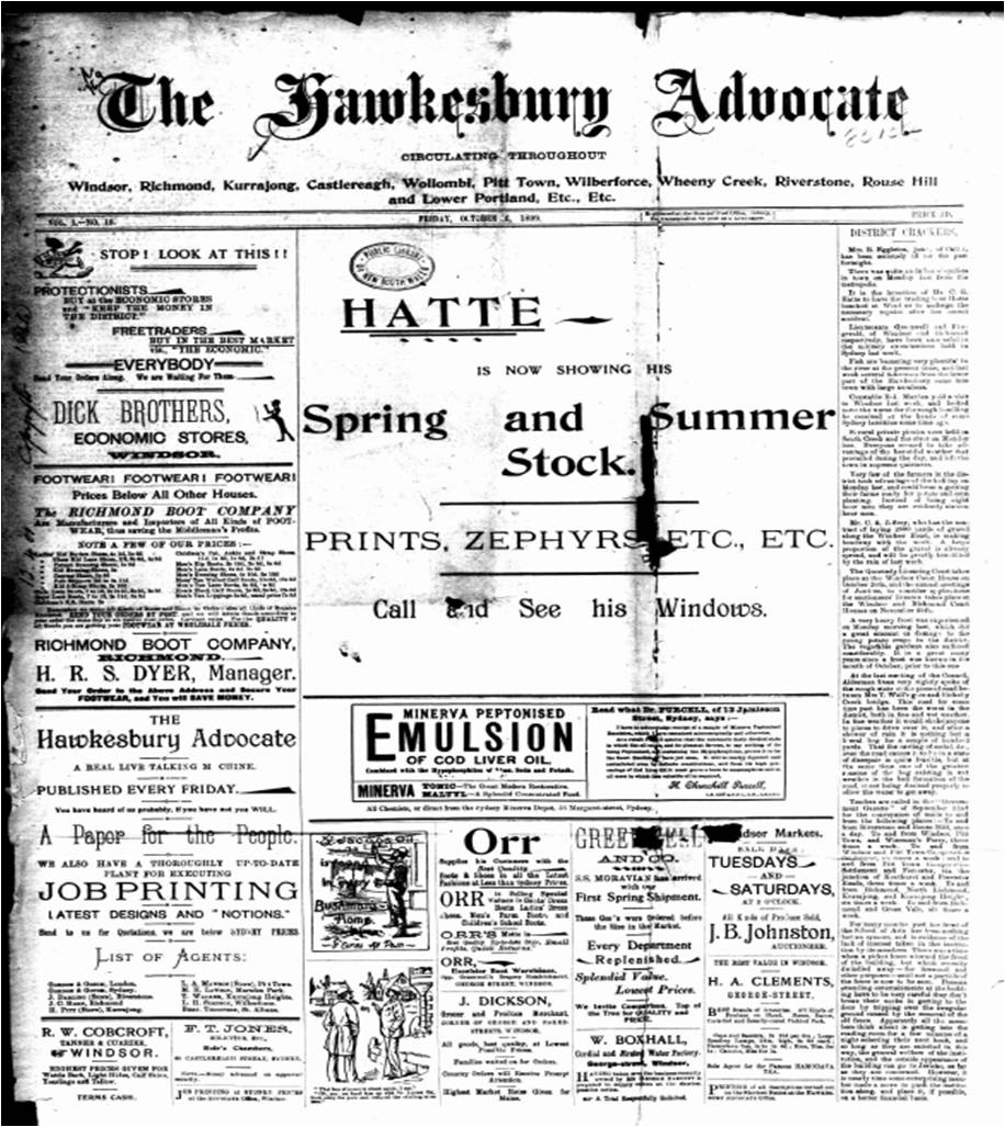 Coverpage of a historic newspaper from New South Wales, Australia.